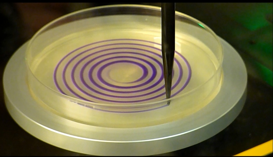 a photo of a petri dish after a spiral plater left the spiral pattern on it using purple color